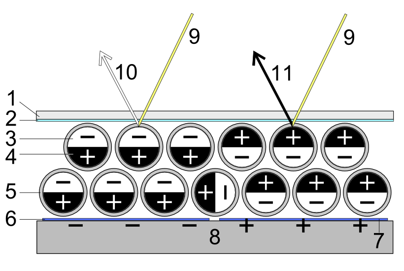 Electronic paper (Side view of Twistball) W/O text